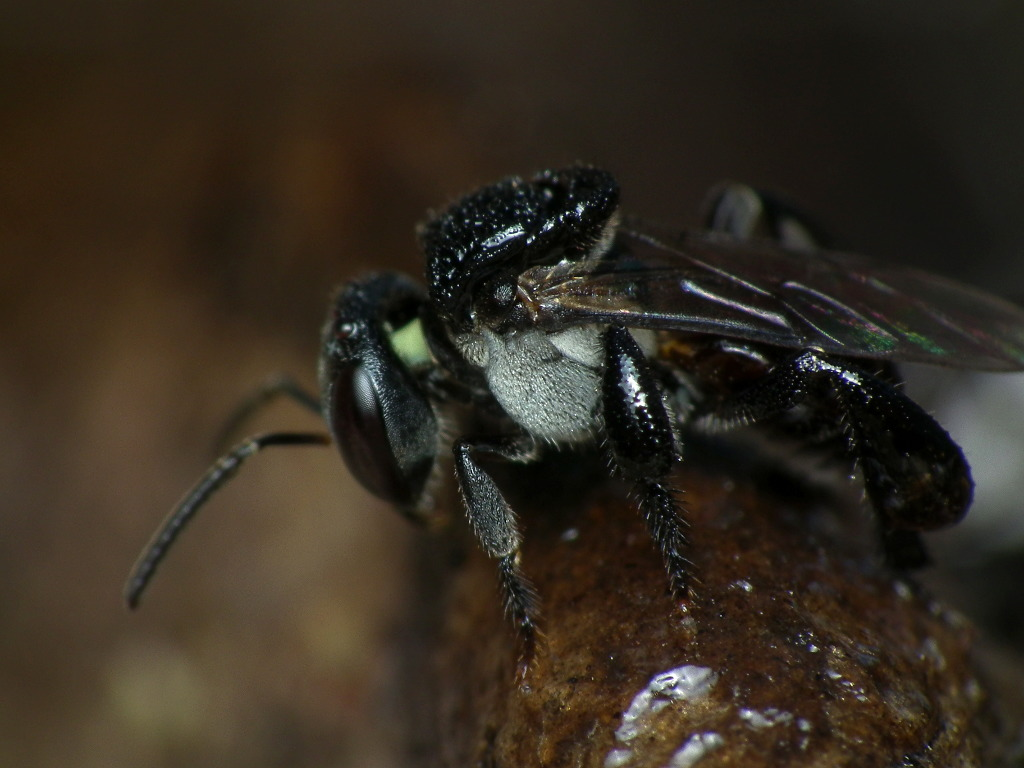 Sugarbag bee (Trigona carbonaria), in Brisbane, Queensland, Australia